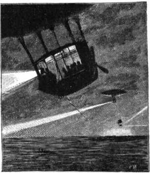 airship by searchlight